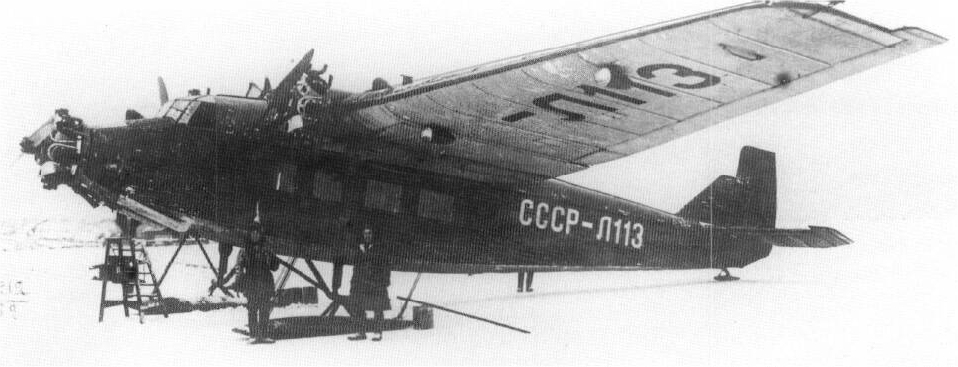 Aeroflot ANT-9 SSSR-L113 mounted on skis